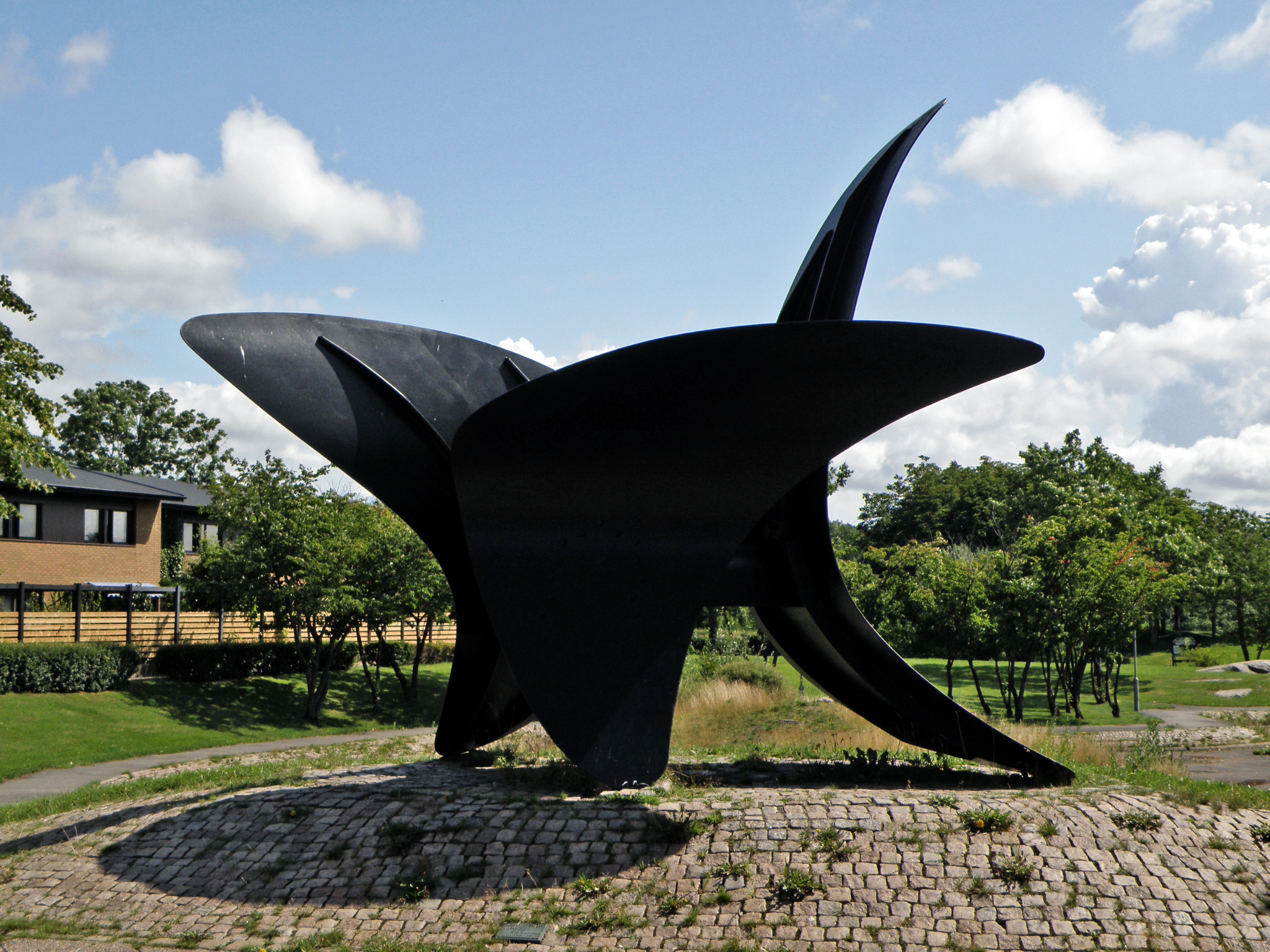 The three wings. Sculpture by Alexander Calder, 1967. Blå stället, Angered, Gothenburg, sweden.